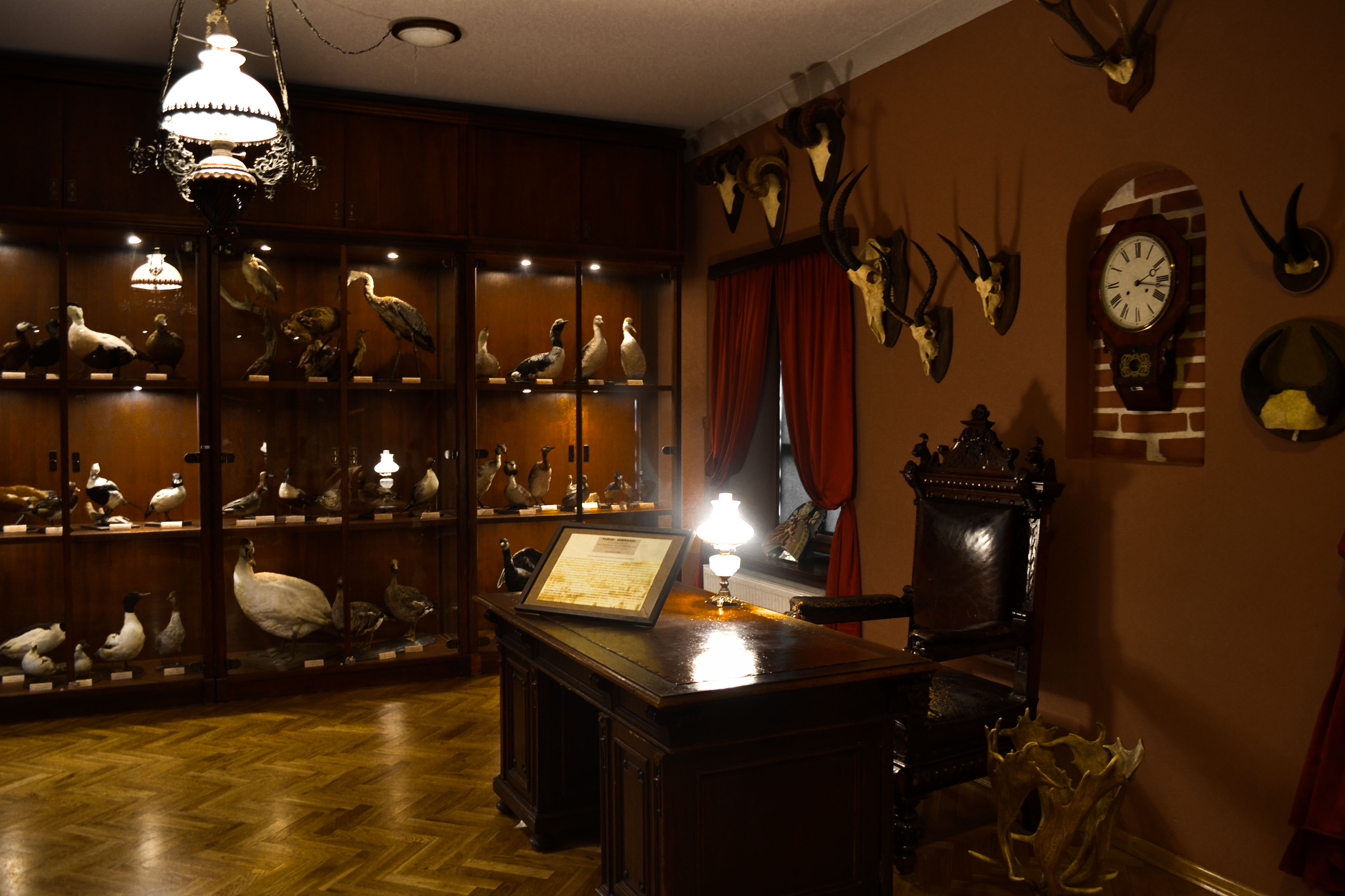 Natural exhibition, Jacek Malczewski Museum in Radom, Poland